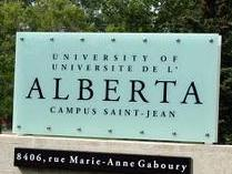 The french-speaking Campus Saint-Jean of Edmonton.